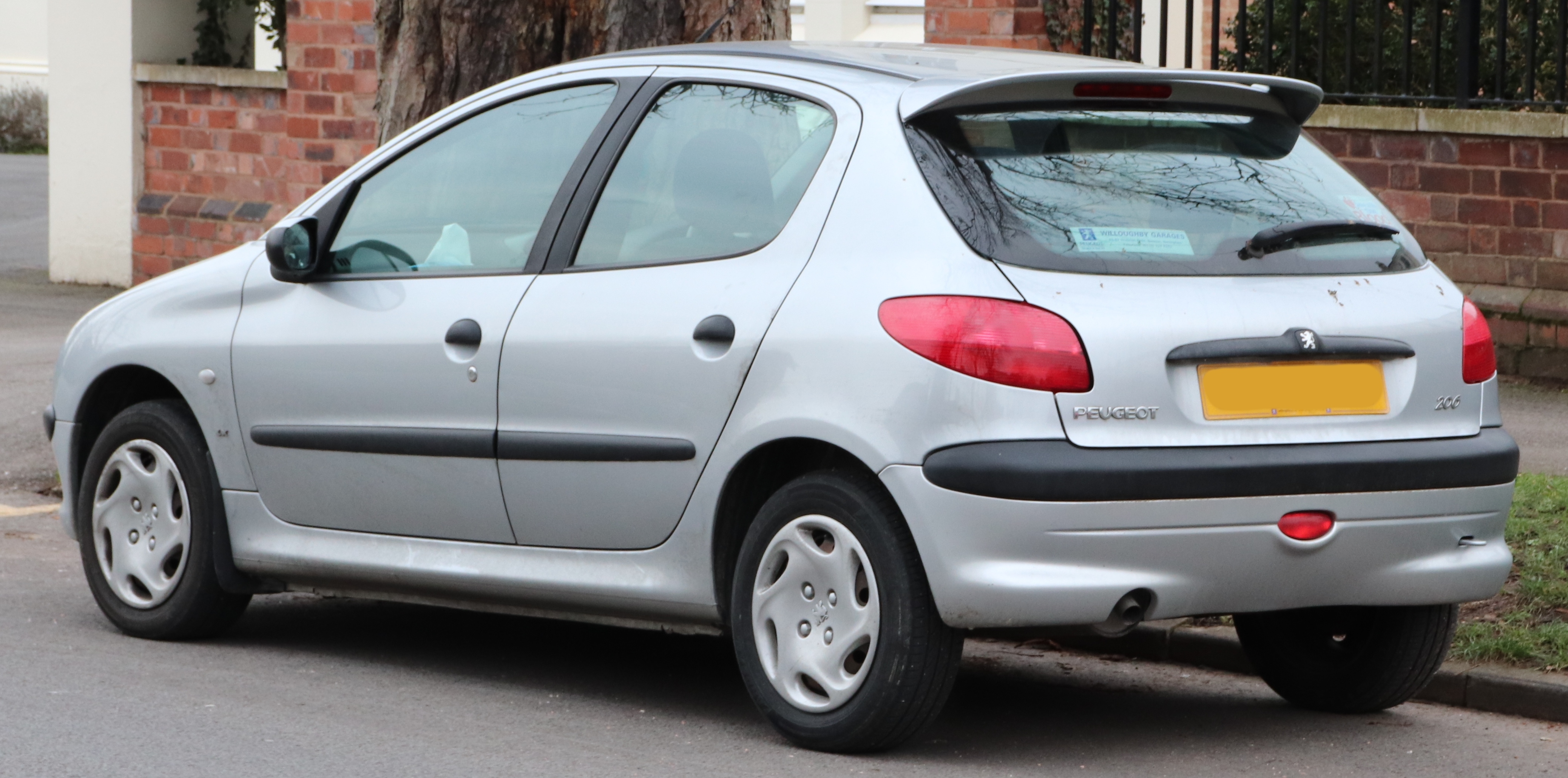 2002 Peugeot 206 LX 1.4 Rear Taken in Leamington Spa